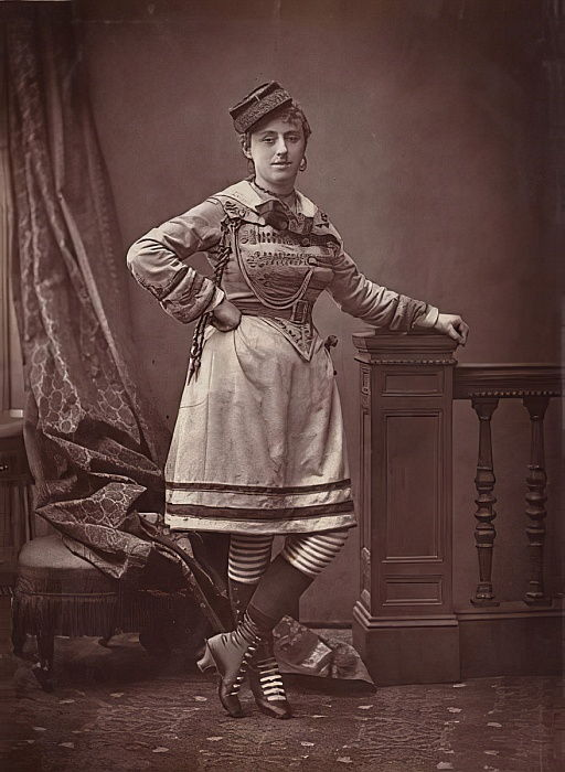 Bessie Sudlow (1849-1928) was a burlesque performer, opera bouffe soprano who was active in New York from 1869 to 1873, then in Britain from 1875 to 1880.